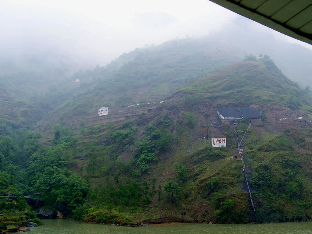 Coal barge loading point on the Yangtze River (Chang Jiang). Coal is trucked to this point where coal barges are loaded for the trip downriver. Photo taken Richard Chambers, AAA Yangtze Sampler tour May 2004. The large sign with the number 175 was placed by the Chinese government to show the high point of the rise in the Yangtze River water level caused by the completion of the Three Gorges Dam.